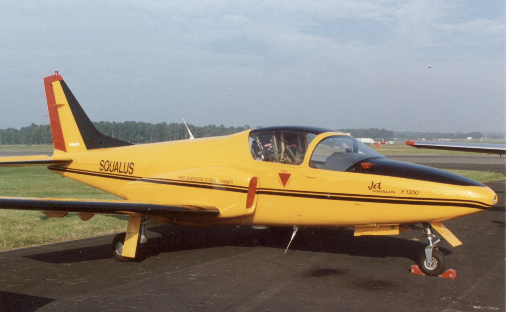 The Promavia F.1300 Jet Squalus I-SQAL exhibited at the Farnborough Air Show